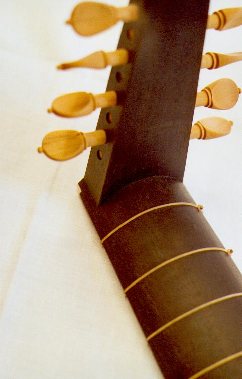 Renaissance laute, pegbox & neck (by blackbiird, 2006-08-08)